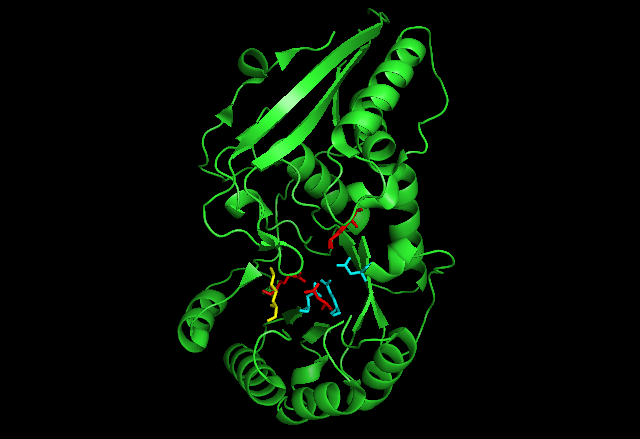 Conformation of MenC when bound to its product and Mg2+